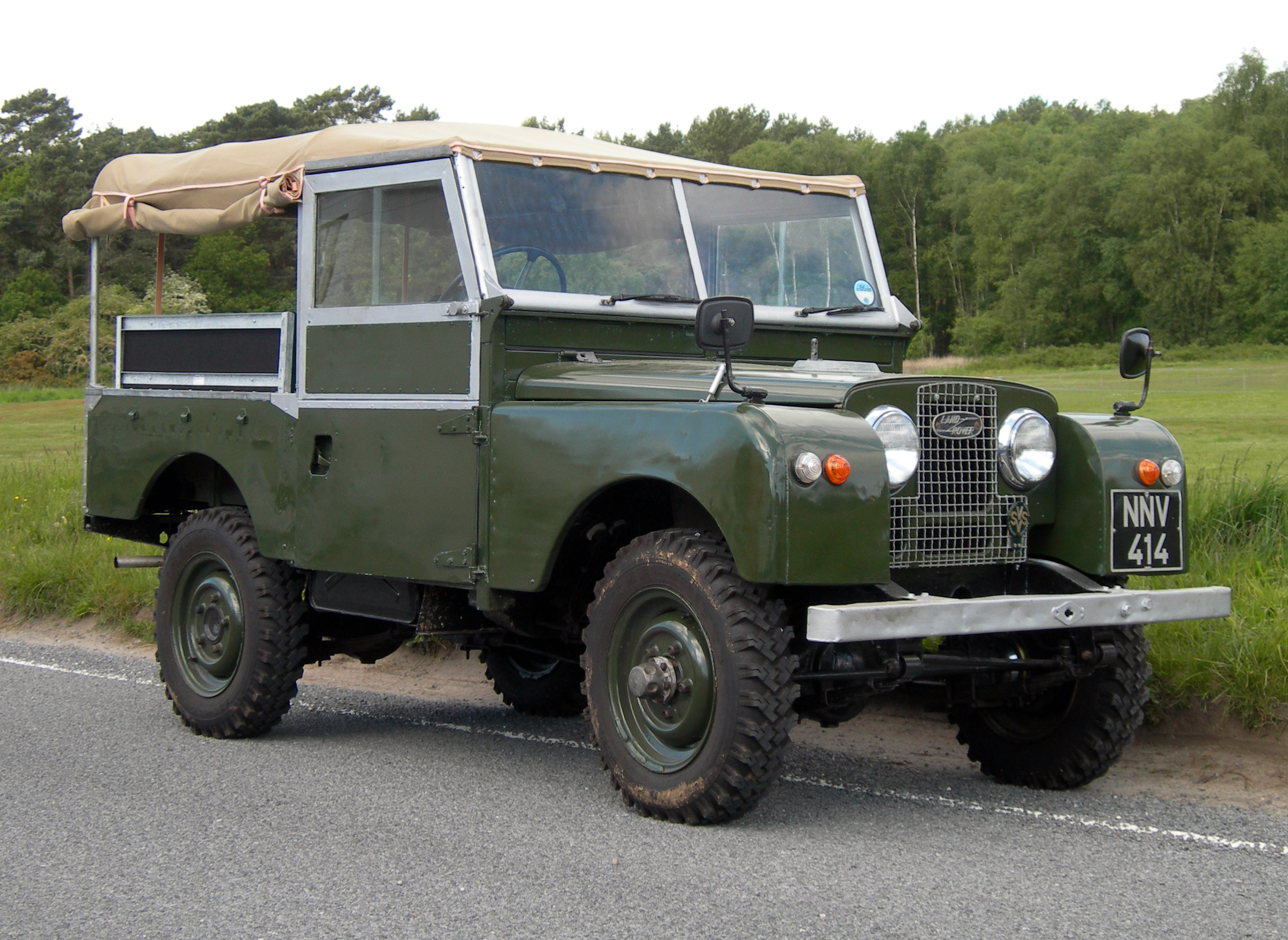 Land Rover Series I at Reigate Heath